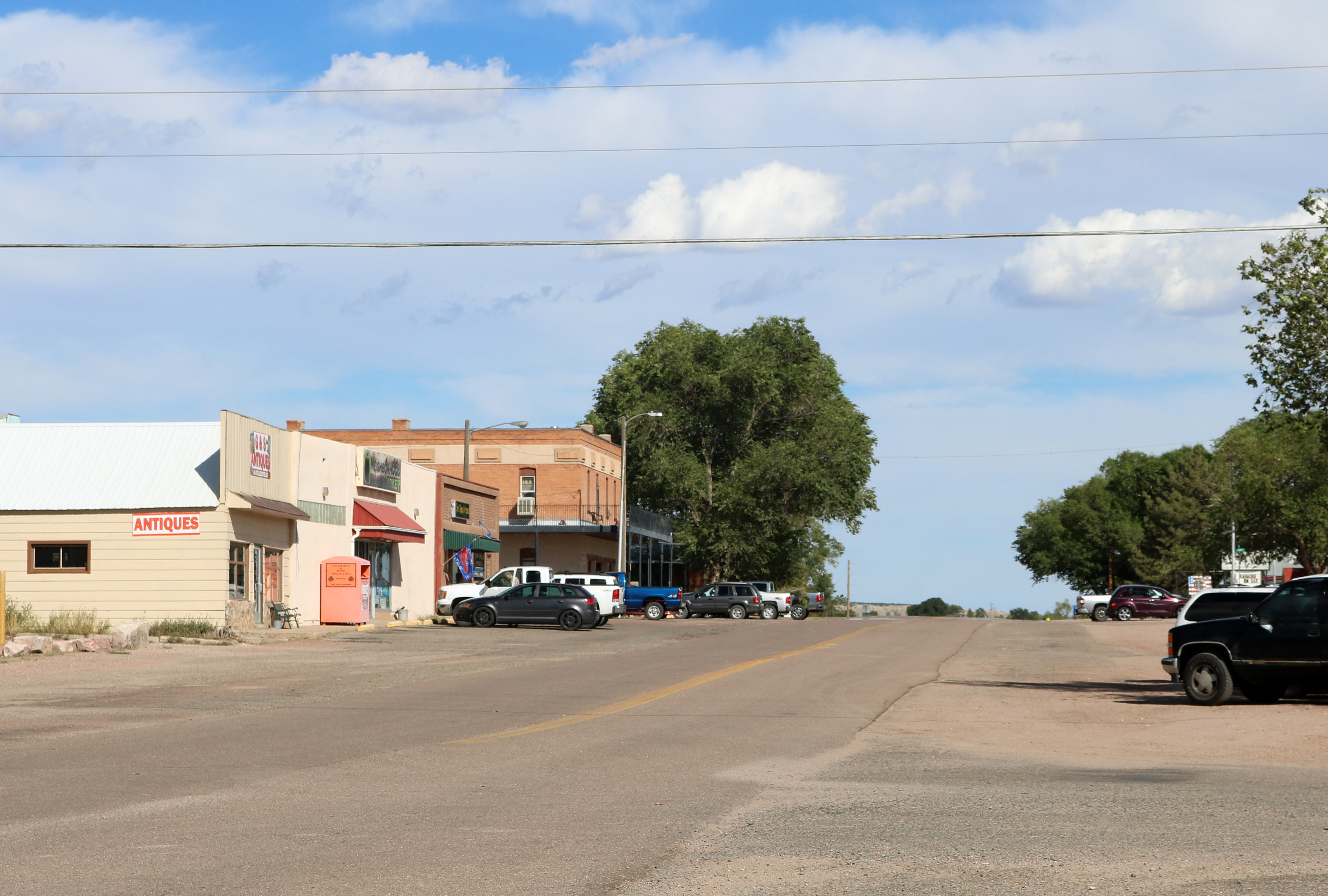 Looking east along Broadway in Penrose, the town's main street.